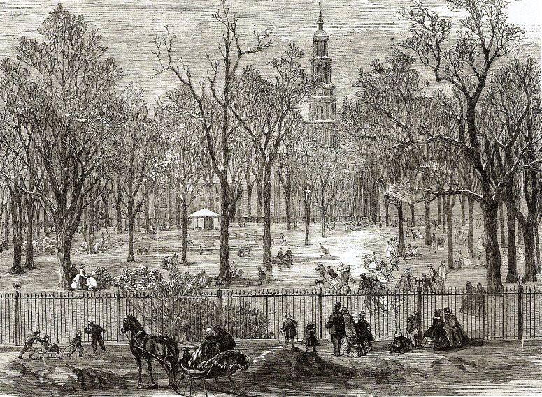 A drawing of St. John's Park, New York City, presumably from the Hudson Street side. The scene depicts ice skaters during the winter of 1866. St. John's Chapel can be seen in the background.